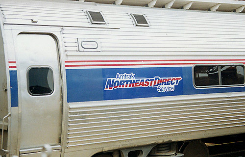 A NortheastDirect train at Wilmington station in the 1990s